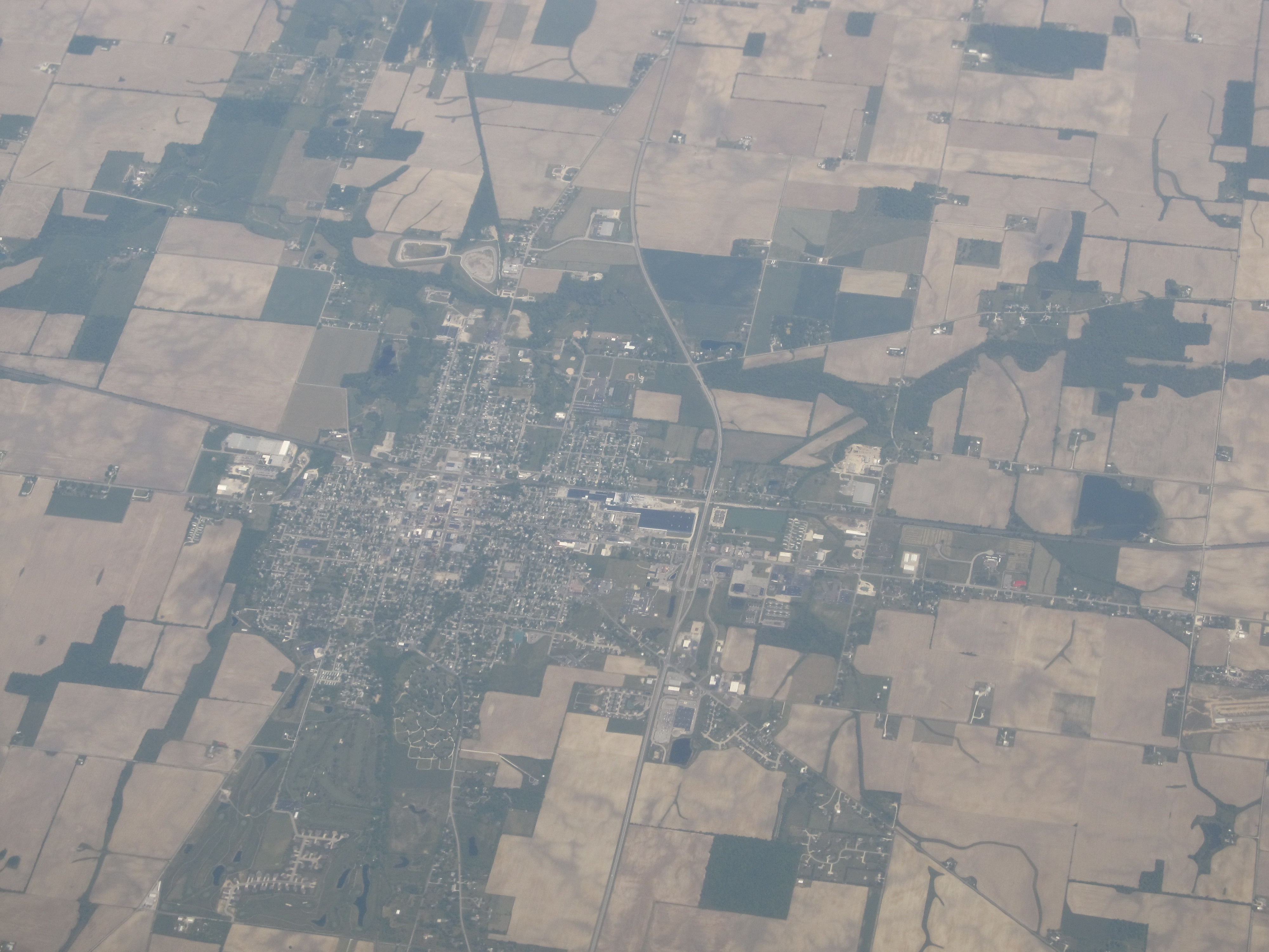 Winchester is a city in White River Township, Randolph County, Indiana, United States. The population was 4,935 at the 2010 census. The city is the county seat of Randolph County. It is the home of Winchester Speedway. Winchester is home to several manufacturing plants including Anchor Glass Container Corp., Tomasco Indiana, and OMCO.